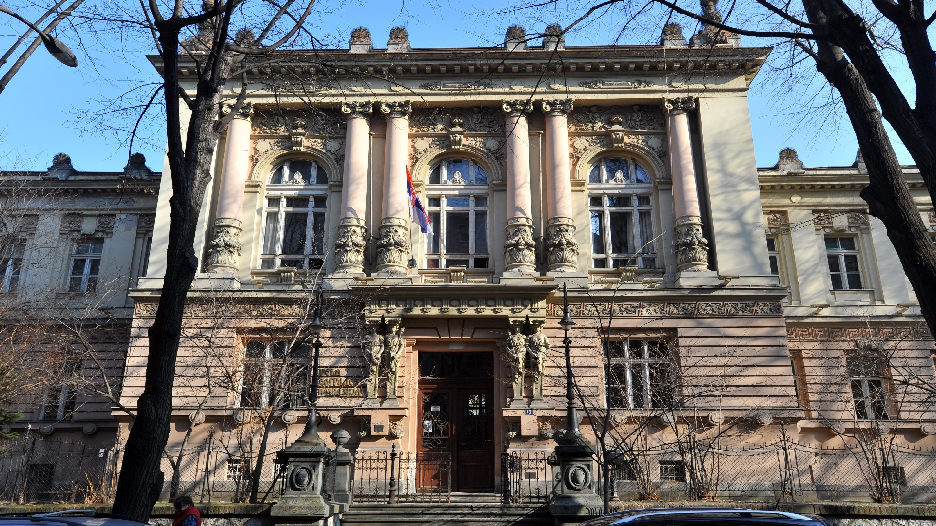 Facade- Building of the Third Belgrade Gymnasium in Belgrade